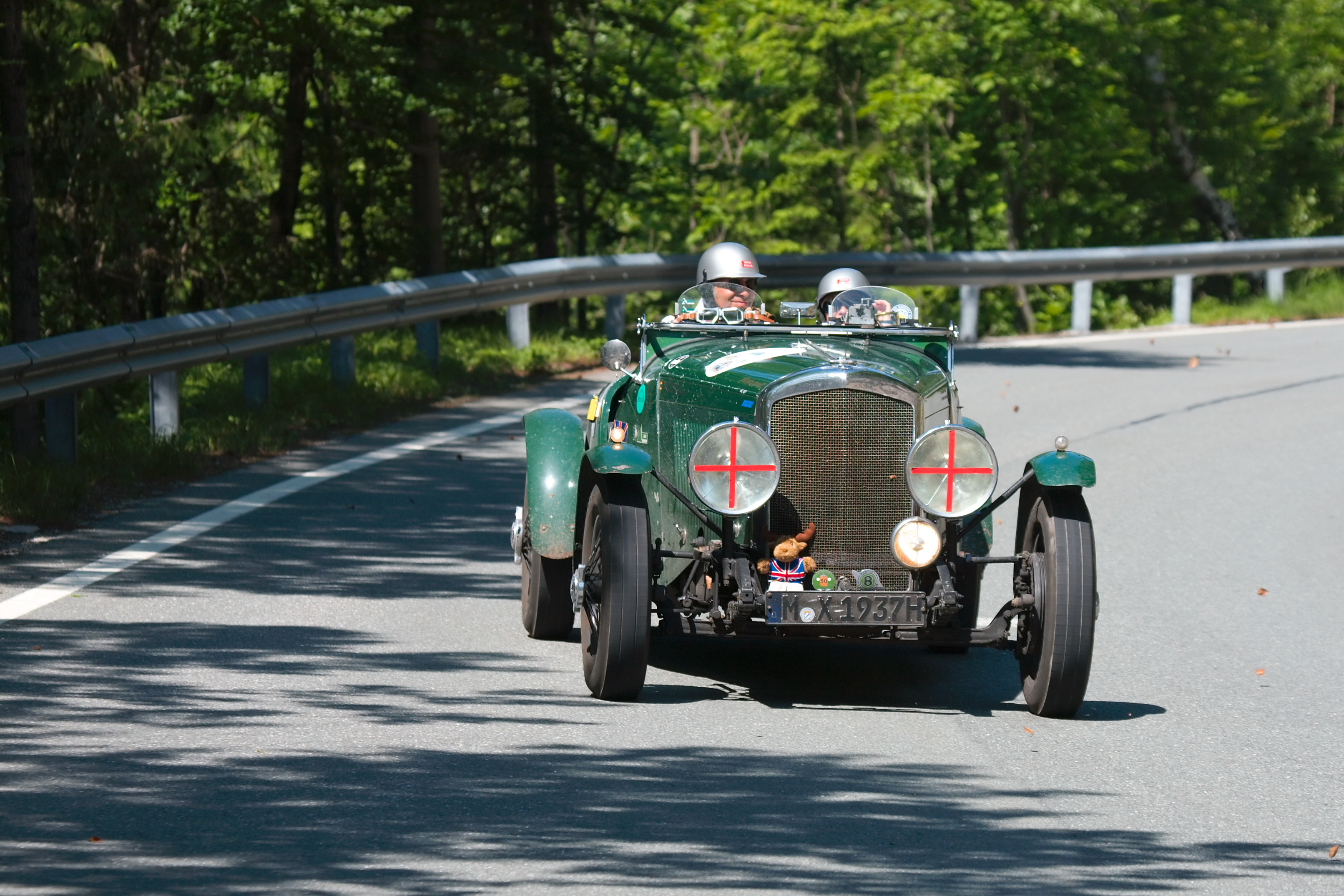 A Bentley 4¼ Litre Derby Special at 2009 Gaisbergrennen in its national livery, the British racing green.